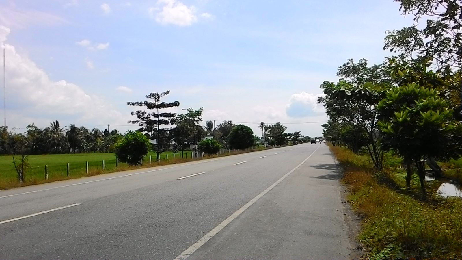 Trans-Sumatran Highway in Indra Puri, Aceh